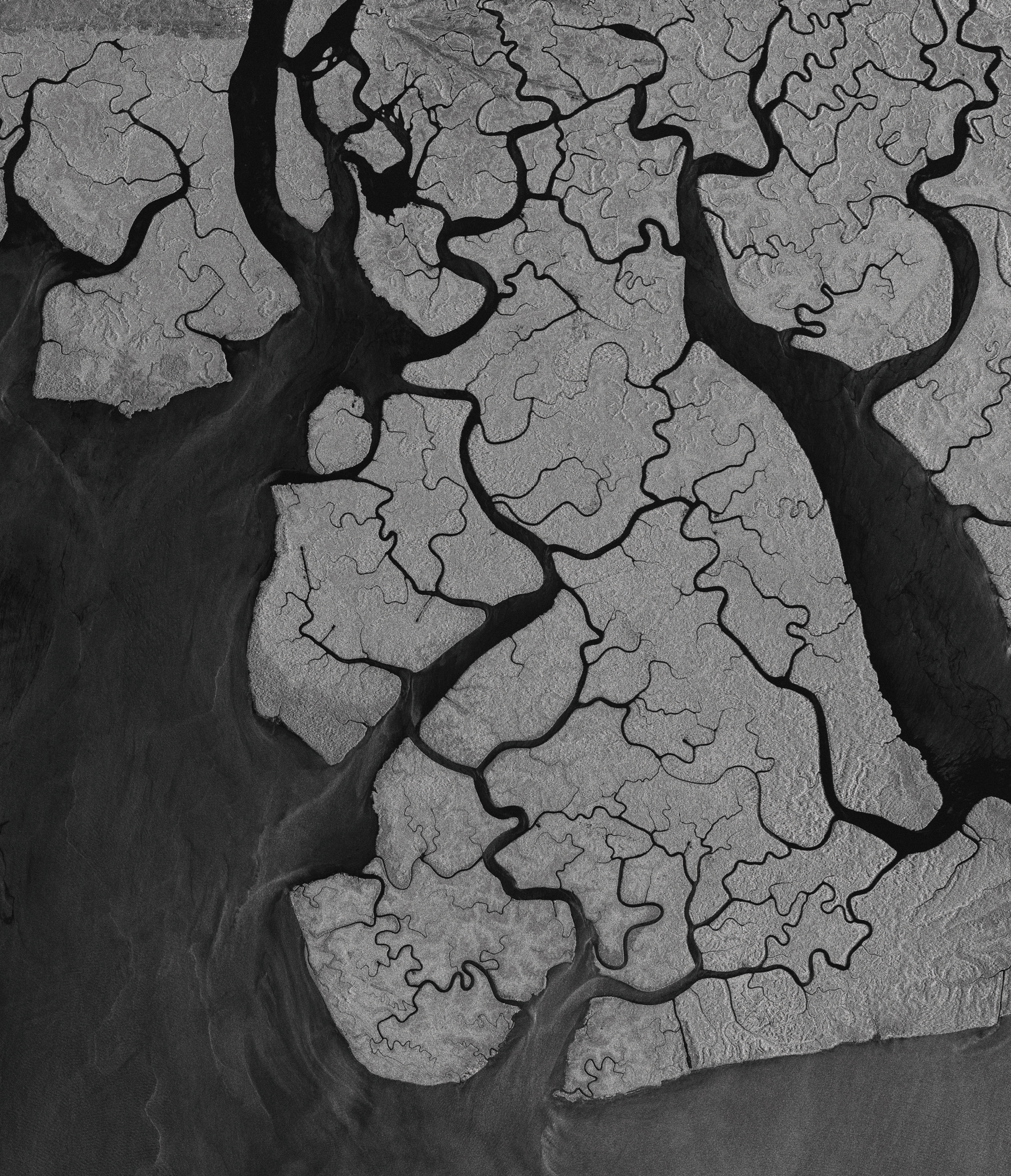 The image, taken by the German radar satellite TerraSAR-X, shows the mangrove-covered islands of the Bakassi peninsula, which are situated at the extreme eastern end of the Gulf of Guinea. Due to the outstanding accuracy of its calibration, TerraSAR-X is able to detect very small changes in the returned signal caused by changes in vegetation or deforestation. By monitoring endangered mangrove forests all over the world, TerraSAR-X can support biodiversity preservation activities. The image was taken on 2 June 2008. It was acquired in stripmap mode with a resolution of 3.3 metres. Compare with a similiar photo in visible range.